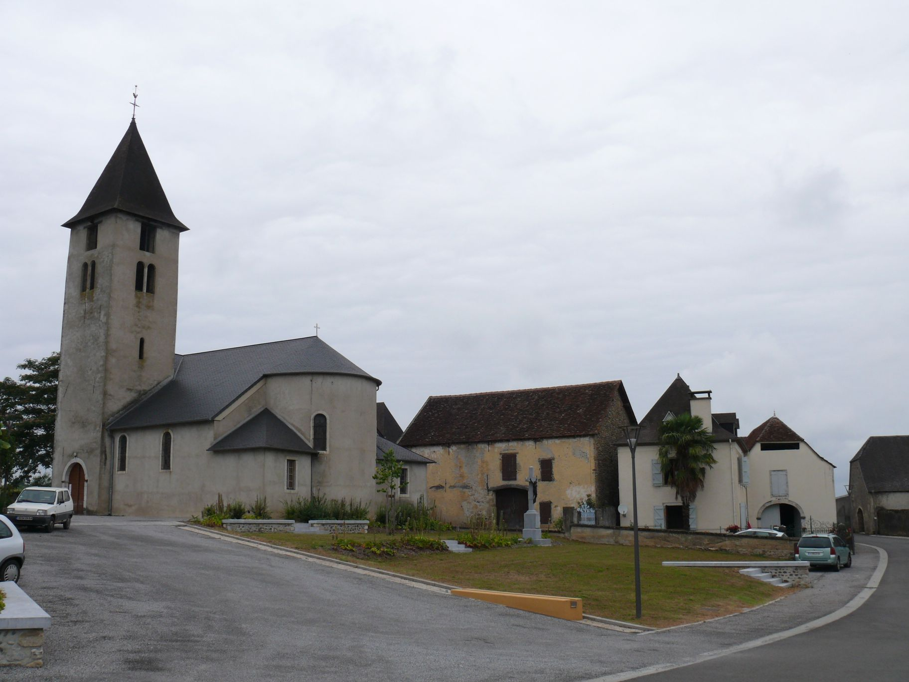 Saint-Savior's church in Sus (Pyrénées-Atlantiques, France).